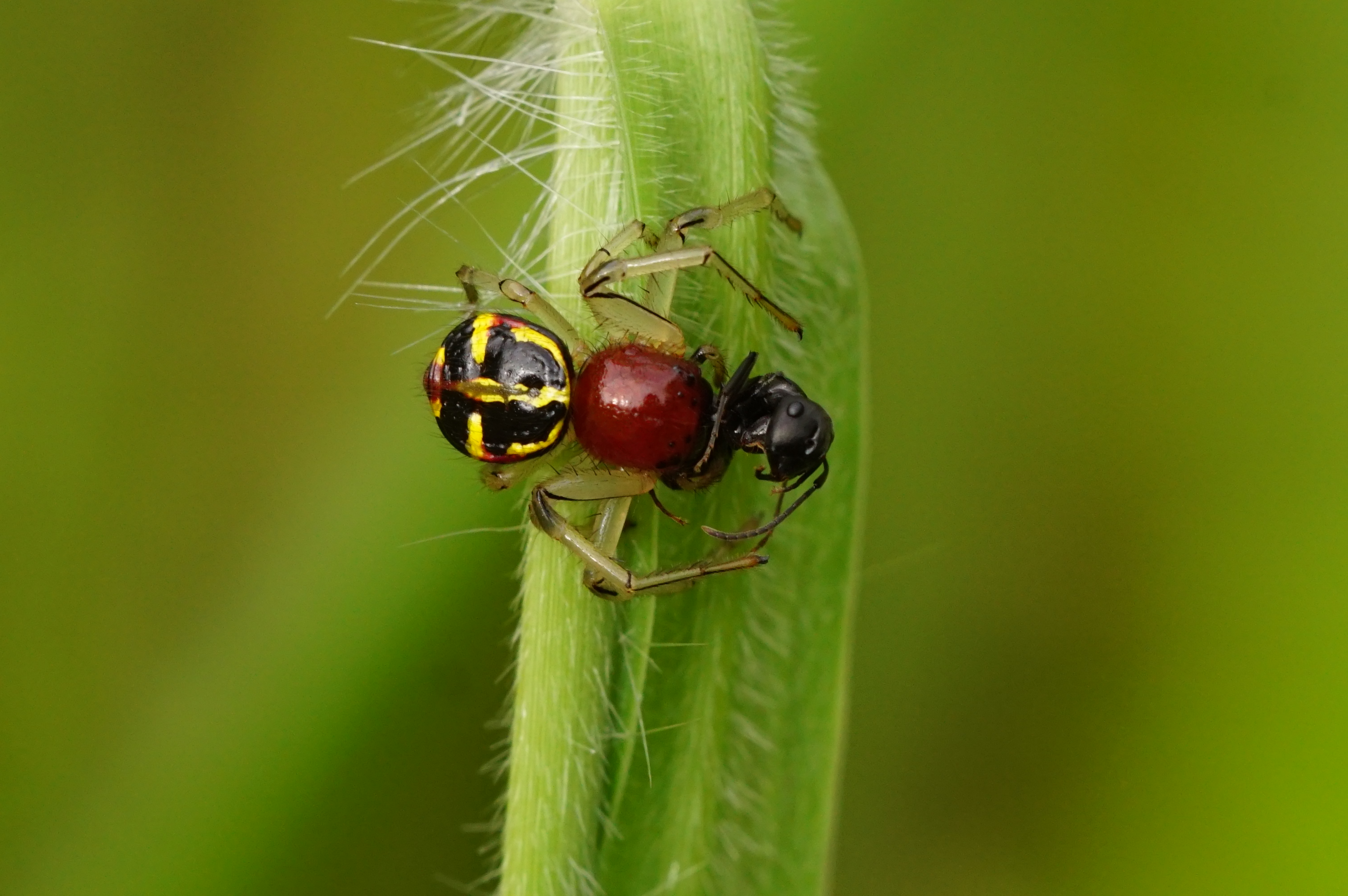 Camaricus formosus